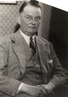 Director General Sigurd Kloumann began as an engineer with the planning of some of Norway's and the world's largest hydroelectric power stations in the early 1900s. He was a tenacious competitor with Norwegian Hydro, which led to extensive cooperation with the German occupying forces during World War II. With this collaborated, he tried to play Norwegian Hydro out on the sidelines.